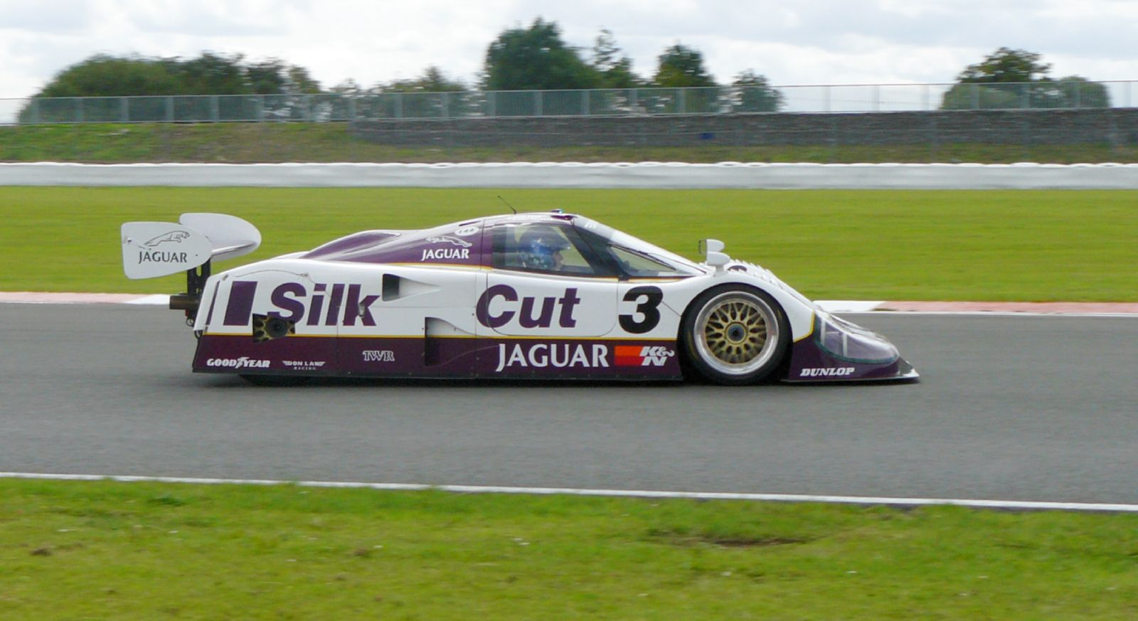 A Jaguar XJR-12 at the Silverstone Classic